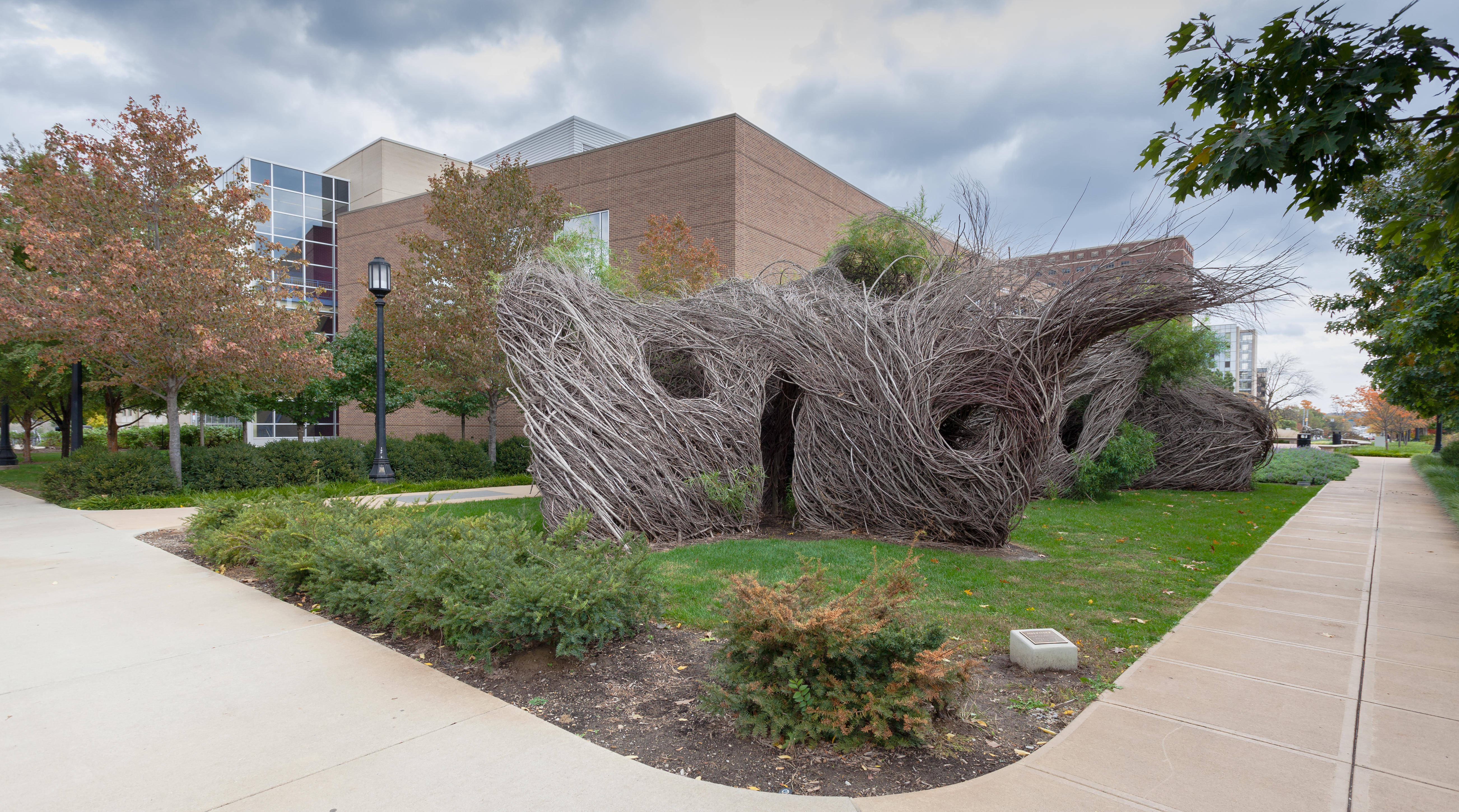 Purdue University, West Lafayette, Indiana, USA